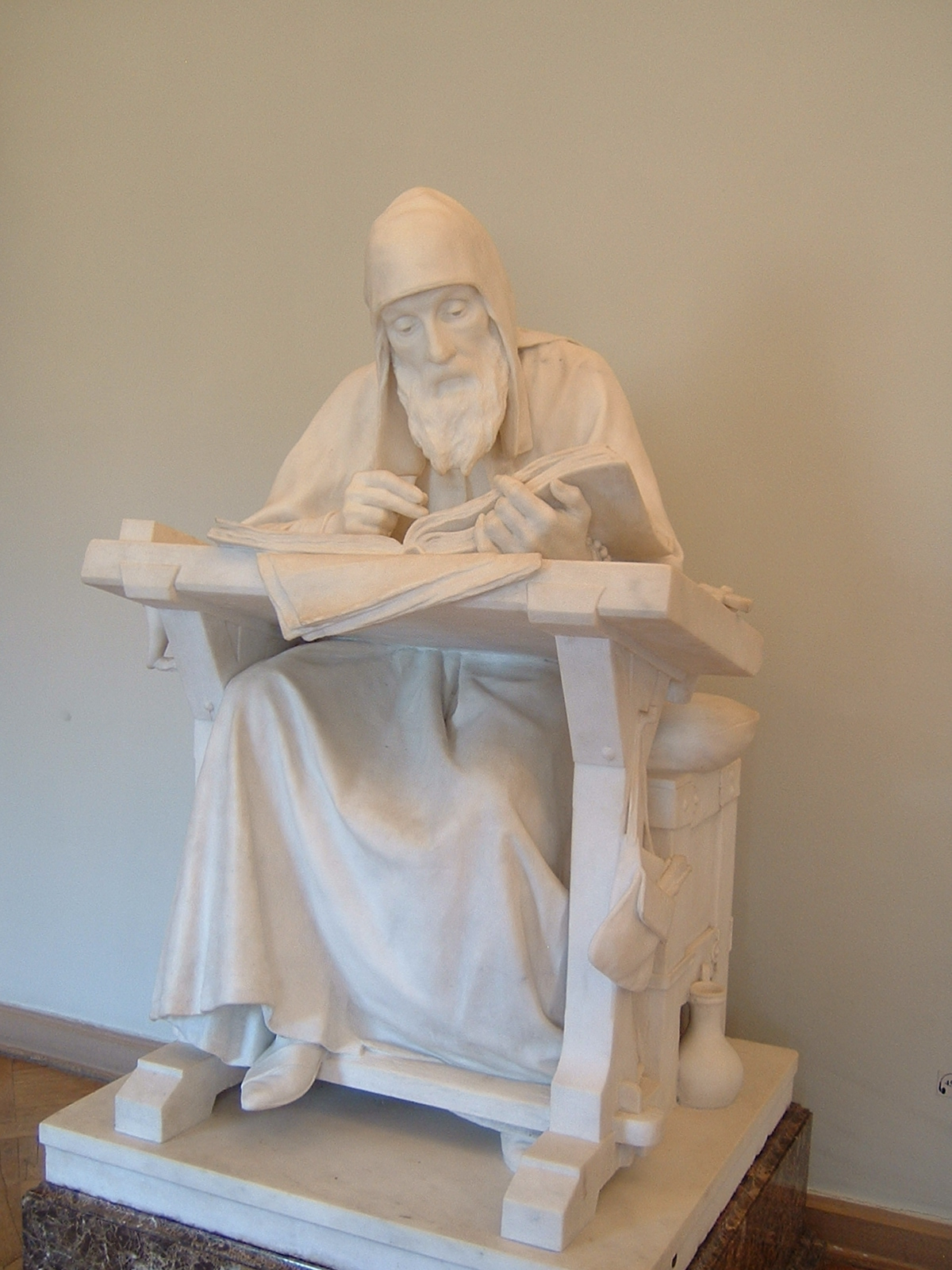 Mark Antokolski Nestor, 1890 The Russian Museum, Photography is mine